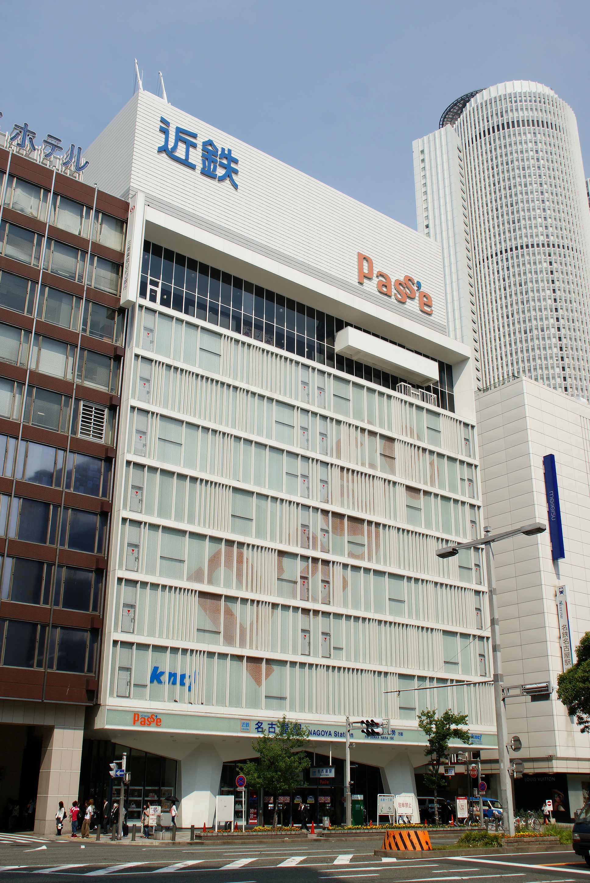 Kintetsu Corporation, Kintetsu Nagoya Station.(Nakamura Ward, Nagoya City, Aichi Prefecture, Japan)